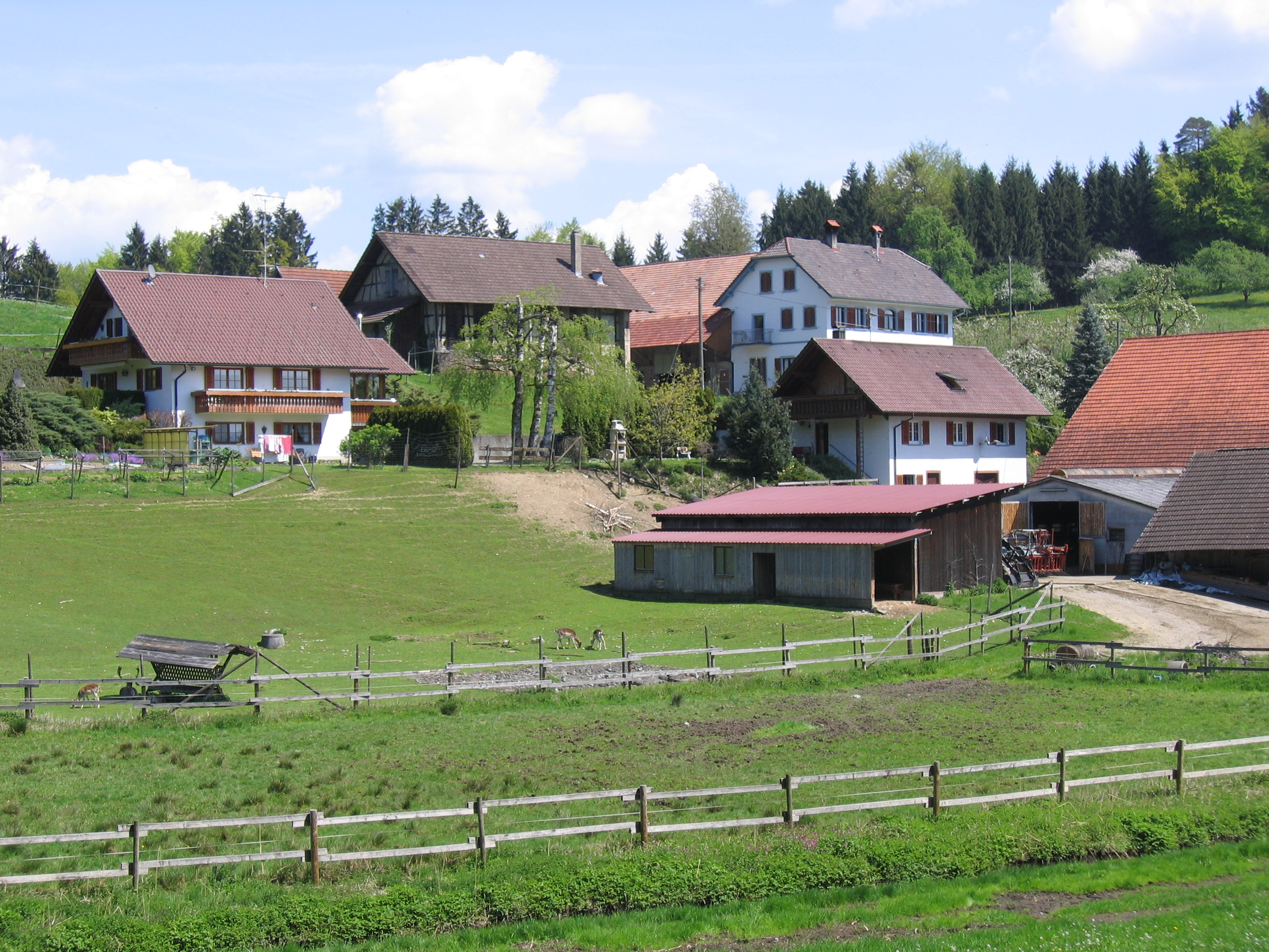 Germany - Baden-Württemberg - Bodenseekreis - Tettnang: district Busenhaus